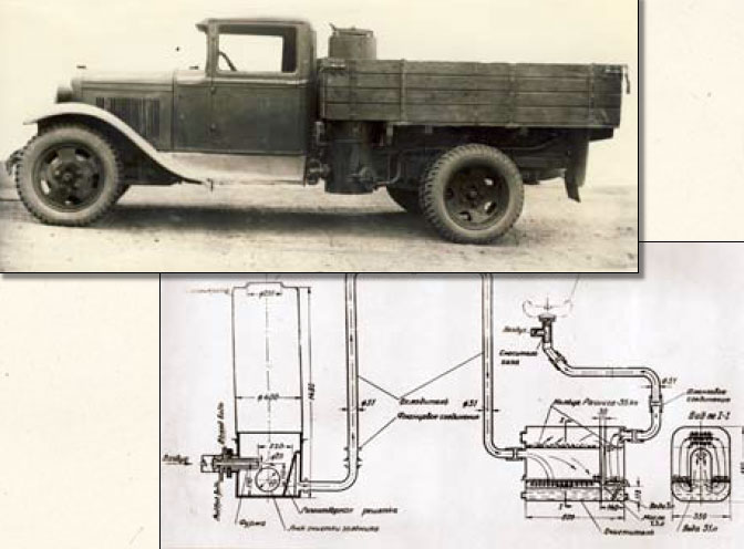 Wood gas generator on GAZ-42 truck from 1943